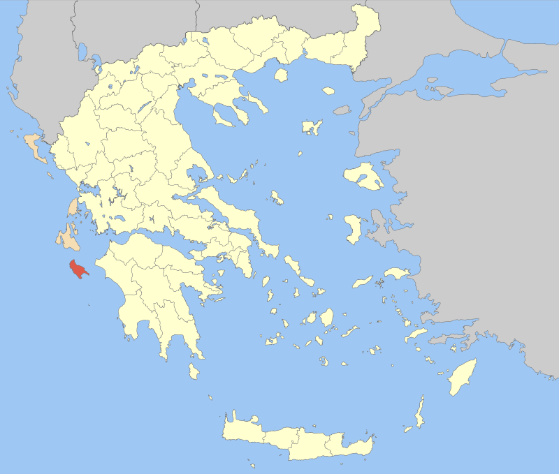 Locator map of Zakynthos prefecture (Νομός Ζακύνθου) in Greece